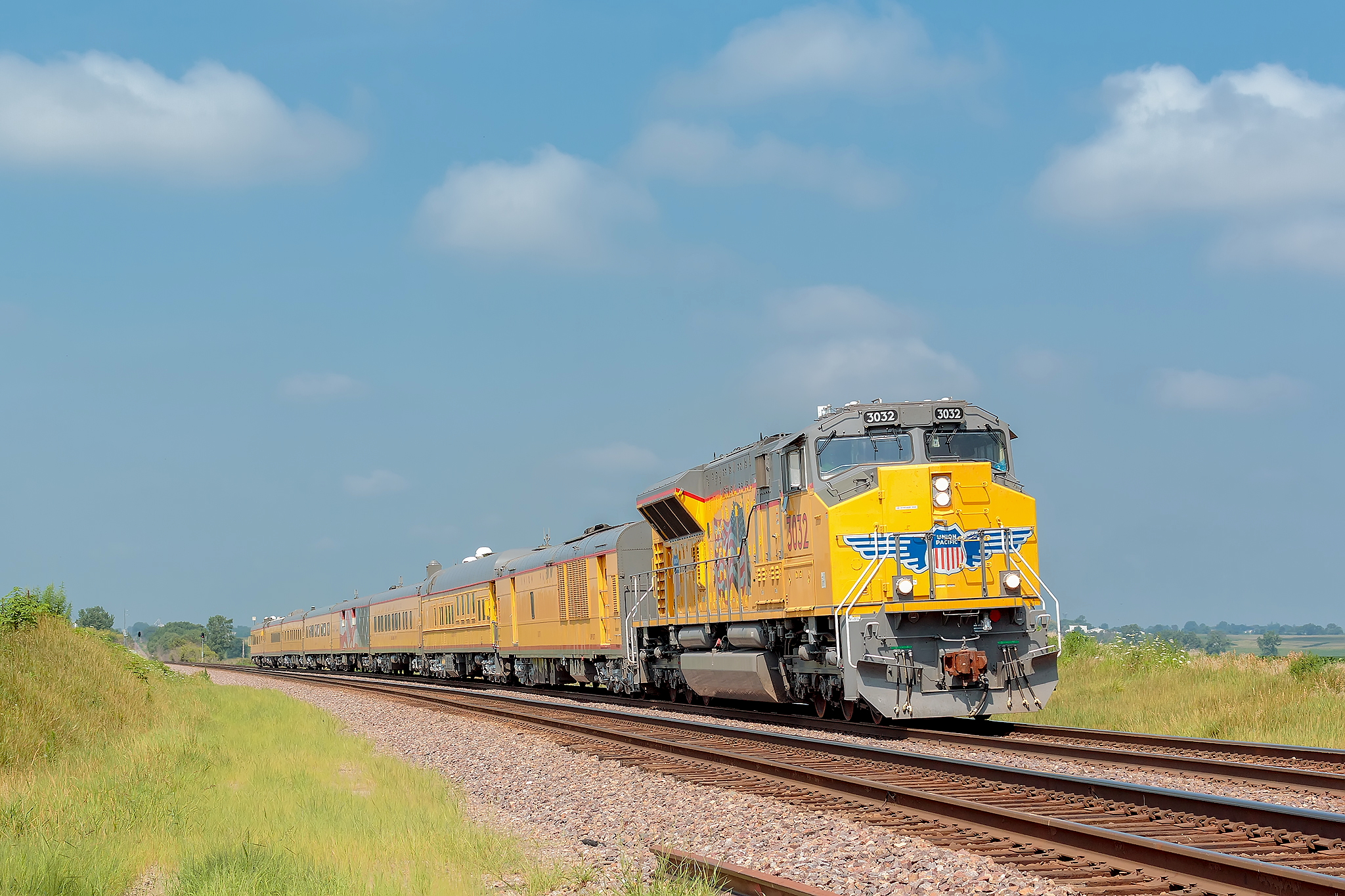 UP 3032 east OCS special.